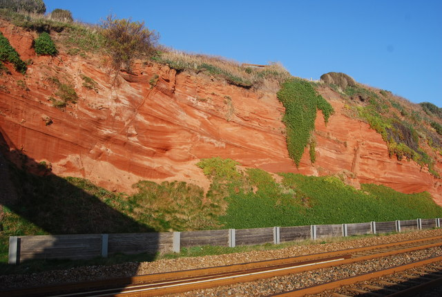 Cross bedded Red Triassic Sandstone Cliffs